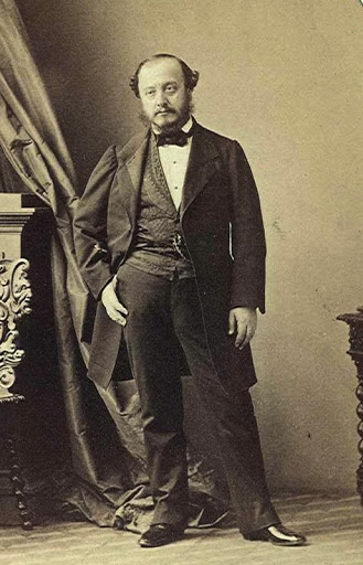 Konstantinos Mousouros also known as Kostaki Musurus Pasha in Turkish. Ottoman Greek statesman.